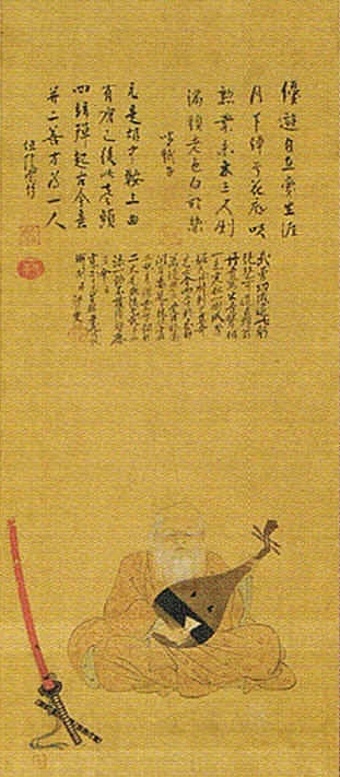 Portrait of HORI Naoyori. Collection of Niigata Prefectural Museum of History.